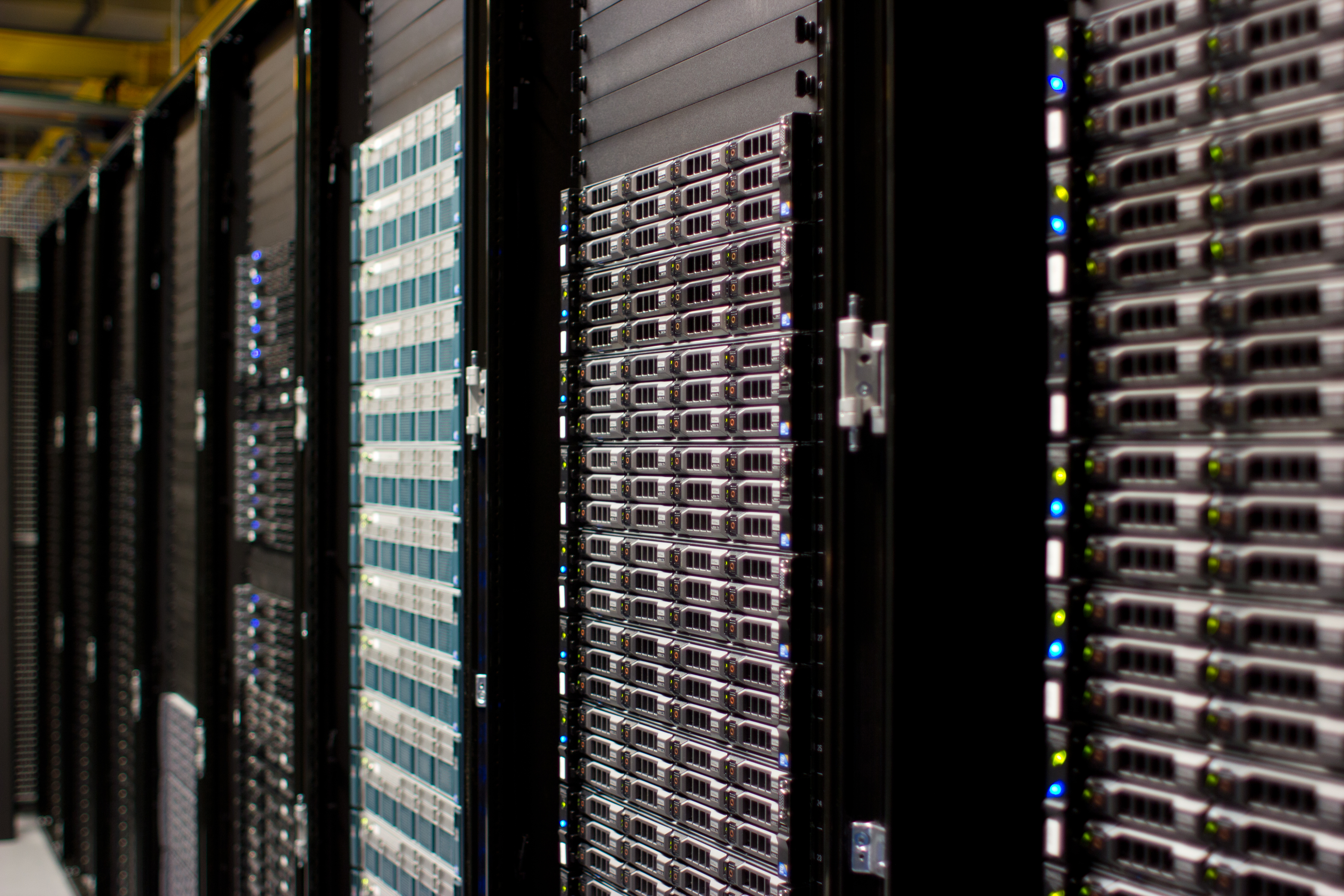 Wikimedia Foundation Servers